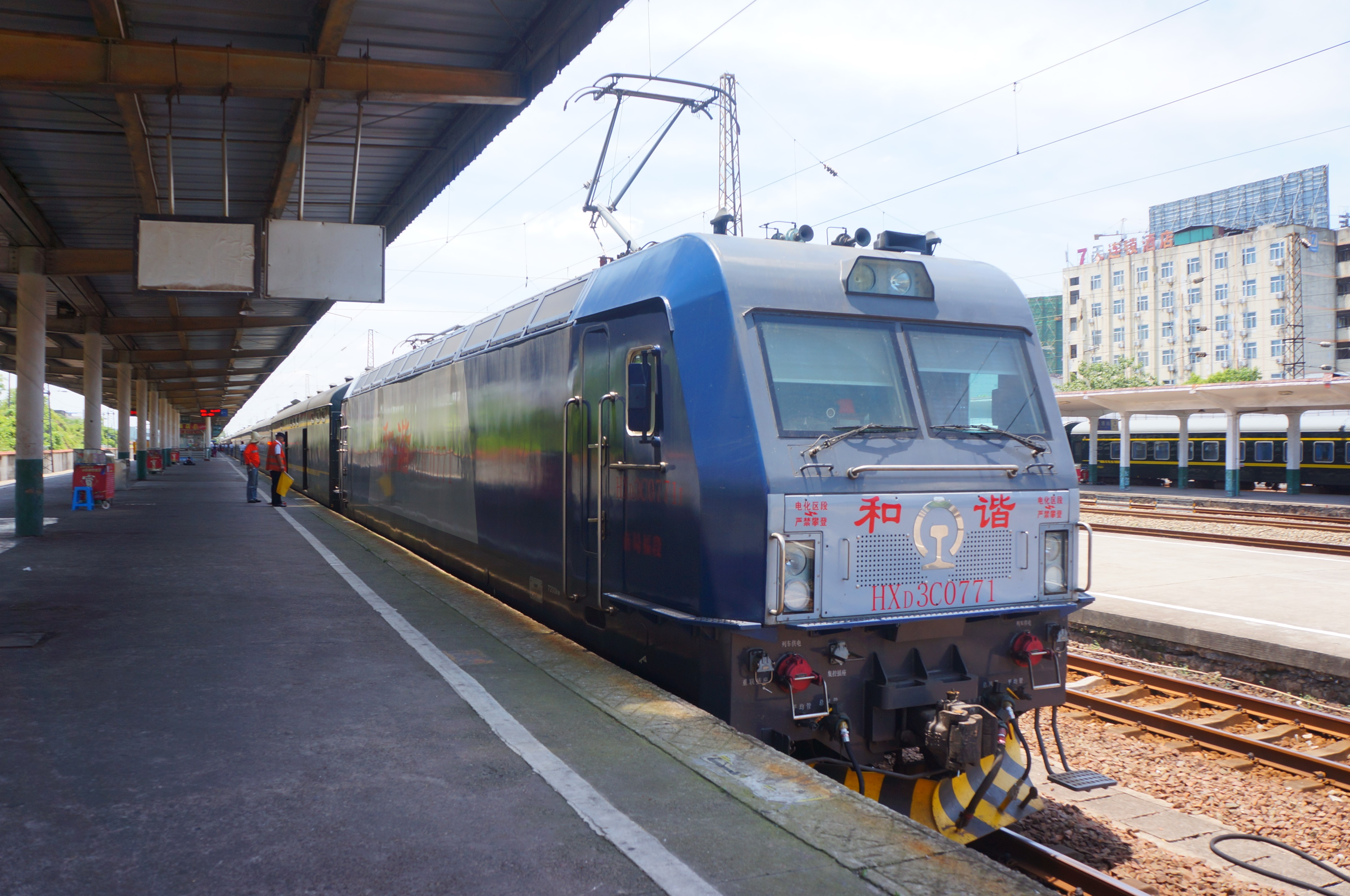 201806 HXD3C-0771 hauls K45 at Yingtan Station